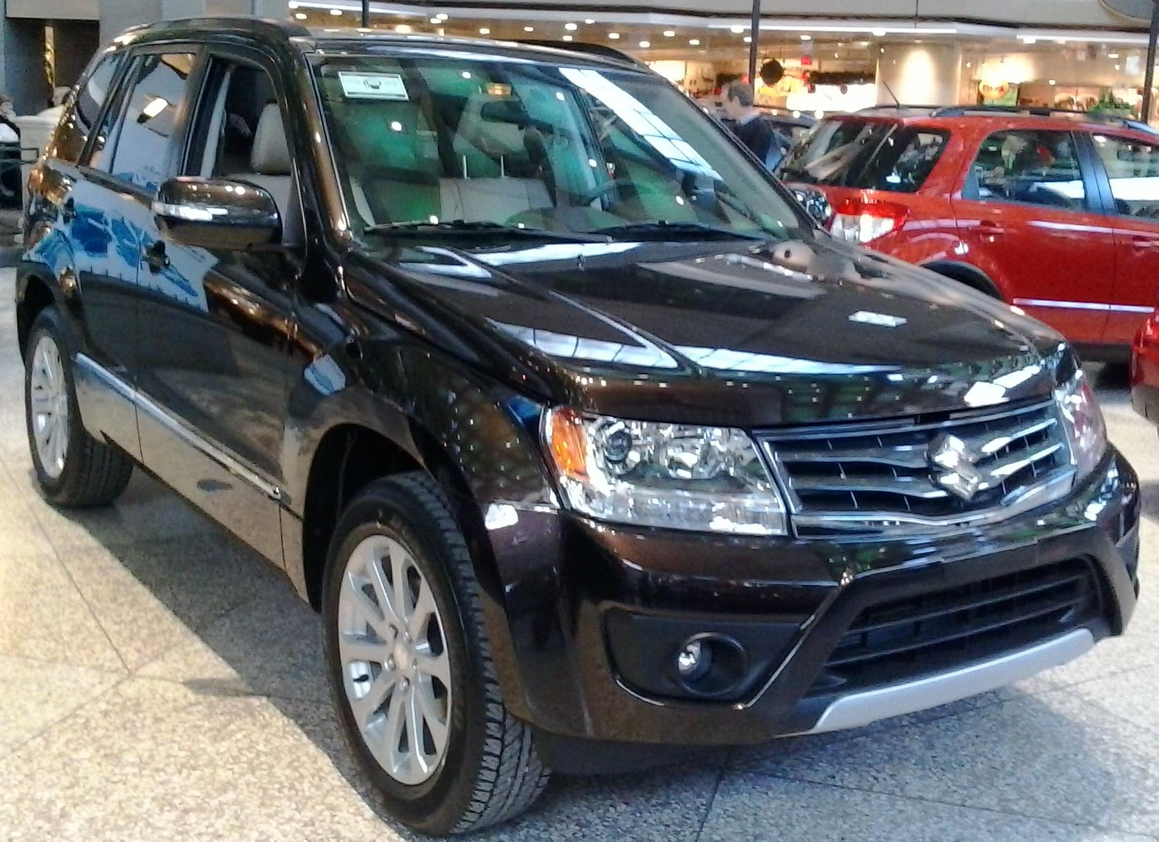 2013 Suzuki Grand Vitara photographed in Montreal, Quebec, Canada at Complexe Desjardins.